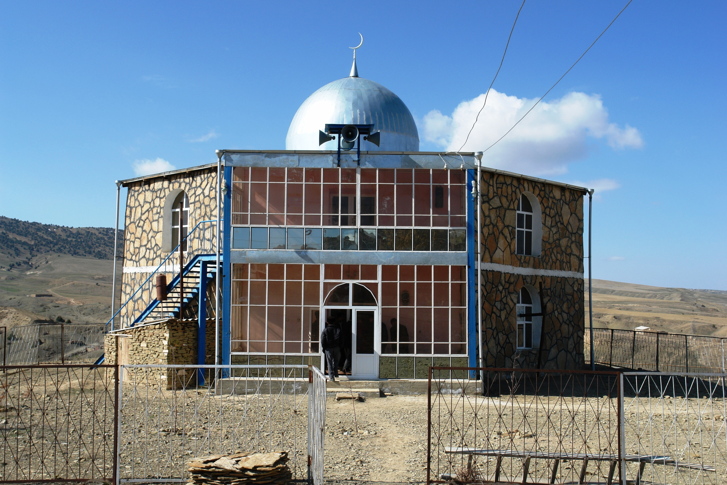 Central Mosque in Kone-Gummez village, Nohur area, 21 April 2008.